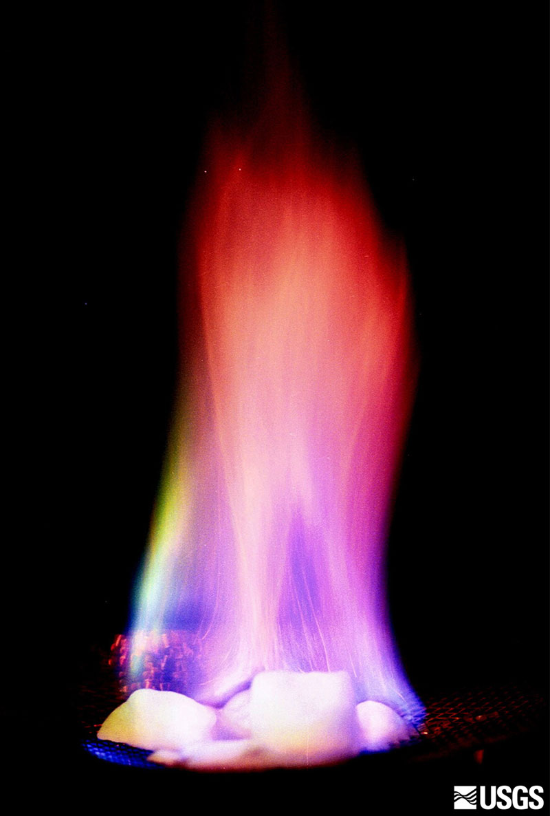 Burning methane hydrate